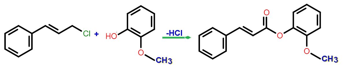 Guaiacol cinnamate synthesis between cinnamyl chloride and guaiacol